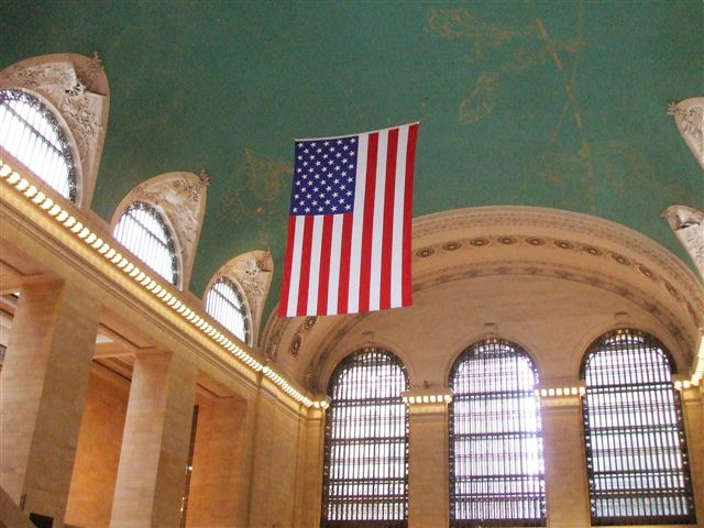 An American flag hung at the ceiling of the Grand Central Terminal